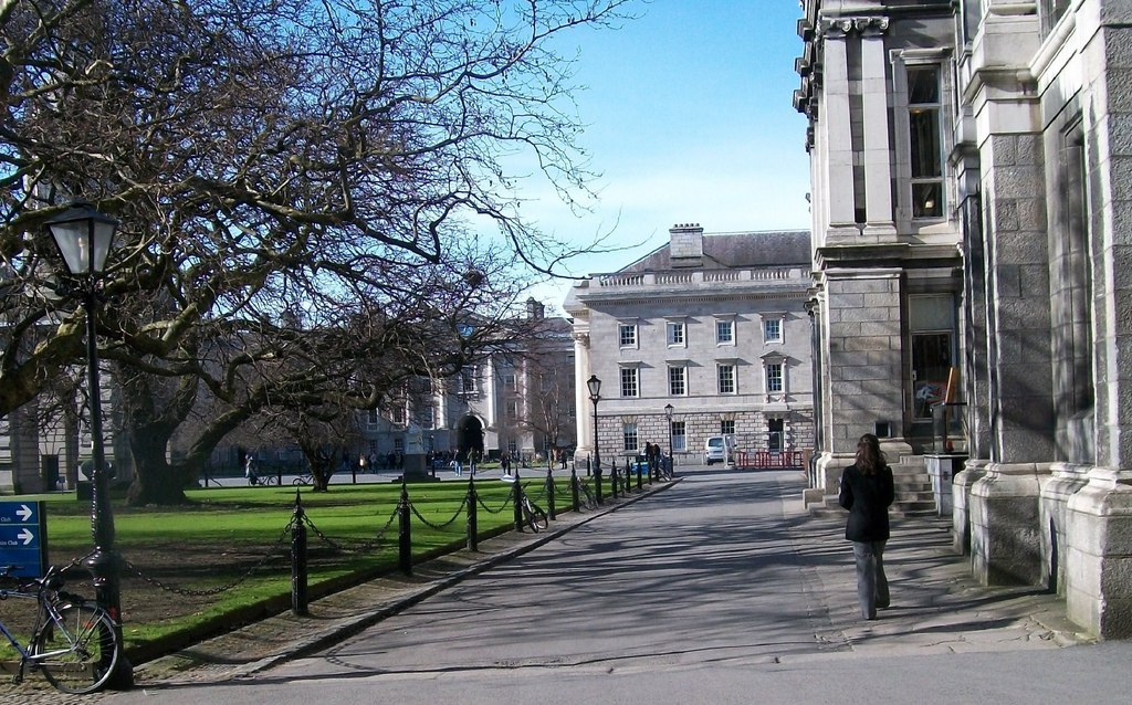 The Graduates Memorial Building facing the Library Square green. The Graduates Memorial Building [GMB], built in 1904, houses the two rival debating societies the Hist and the Phil i.e. the College Historical Society and the University Philosophical Society, each claiming to be the oldest debating society in the world. Up to the end of the 1960s membership was restricted to men. The GMB also has a number of student apartments.